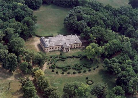 Tengelic, Hungary, aerialphotgraphy (Csapó Mansion)